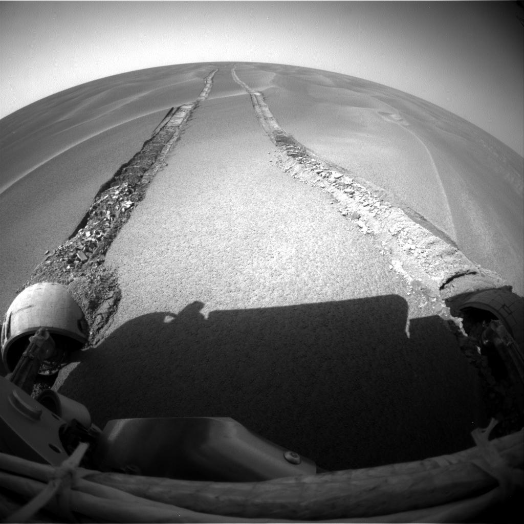 The Opportunity rover stuck in a sand dune on the surface of Mars in late April 2005, with six wheels buried to 80%.